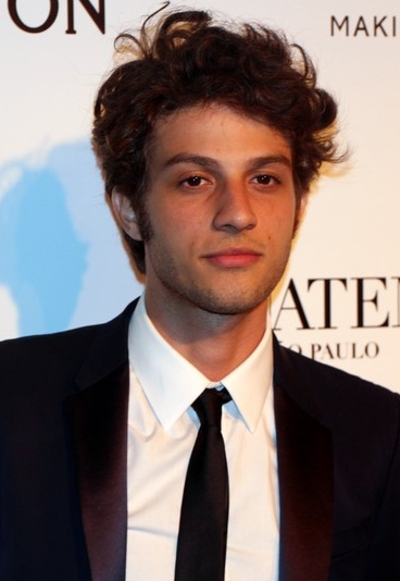 Chay Suede at event amfAR on April 10, 2015.